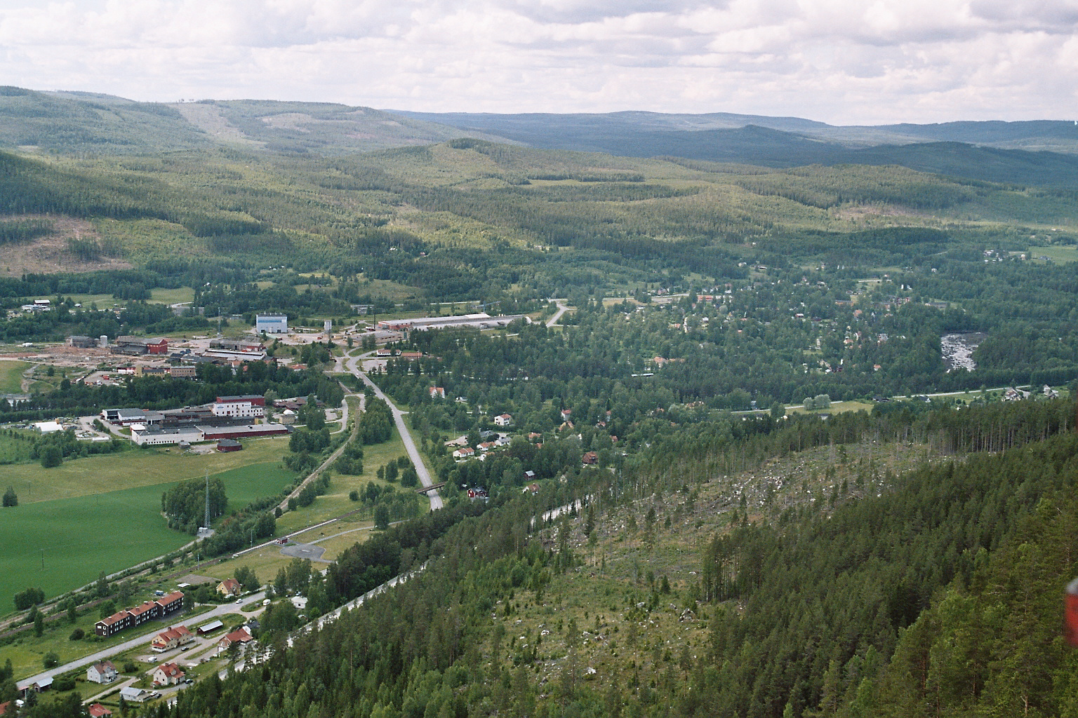 View over the mid Swedish village Ljungaverk